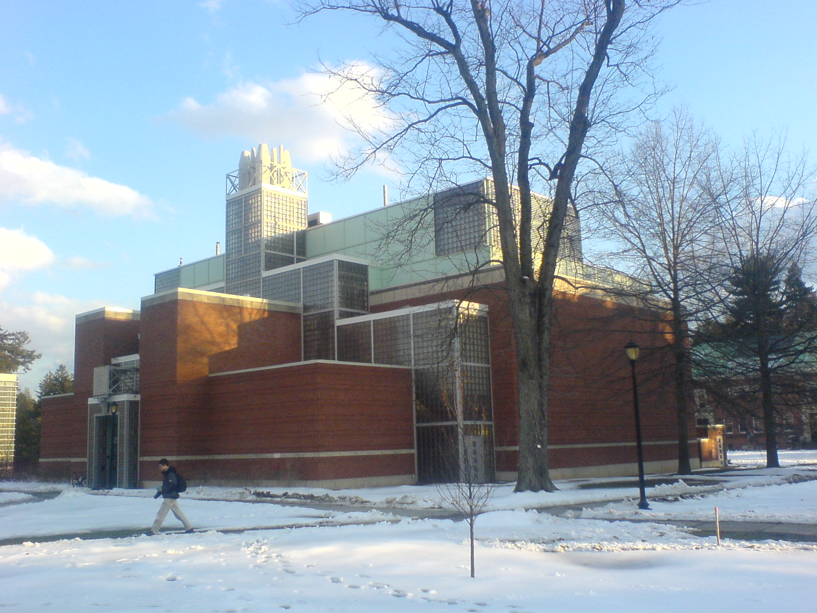 Mudd building at Vassar College, Poughkeepsie, New York. Home of Vassar's Department of Chemistry.